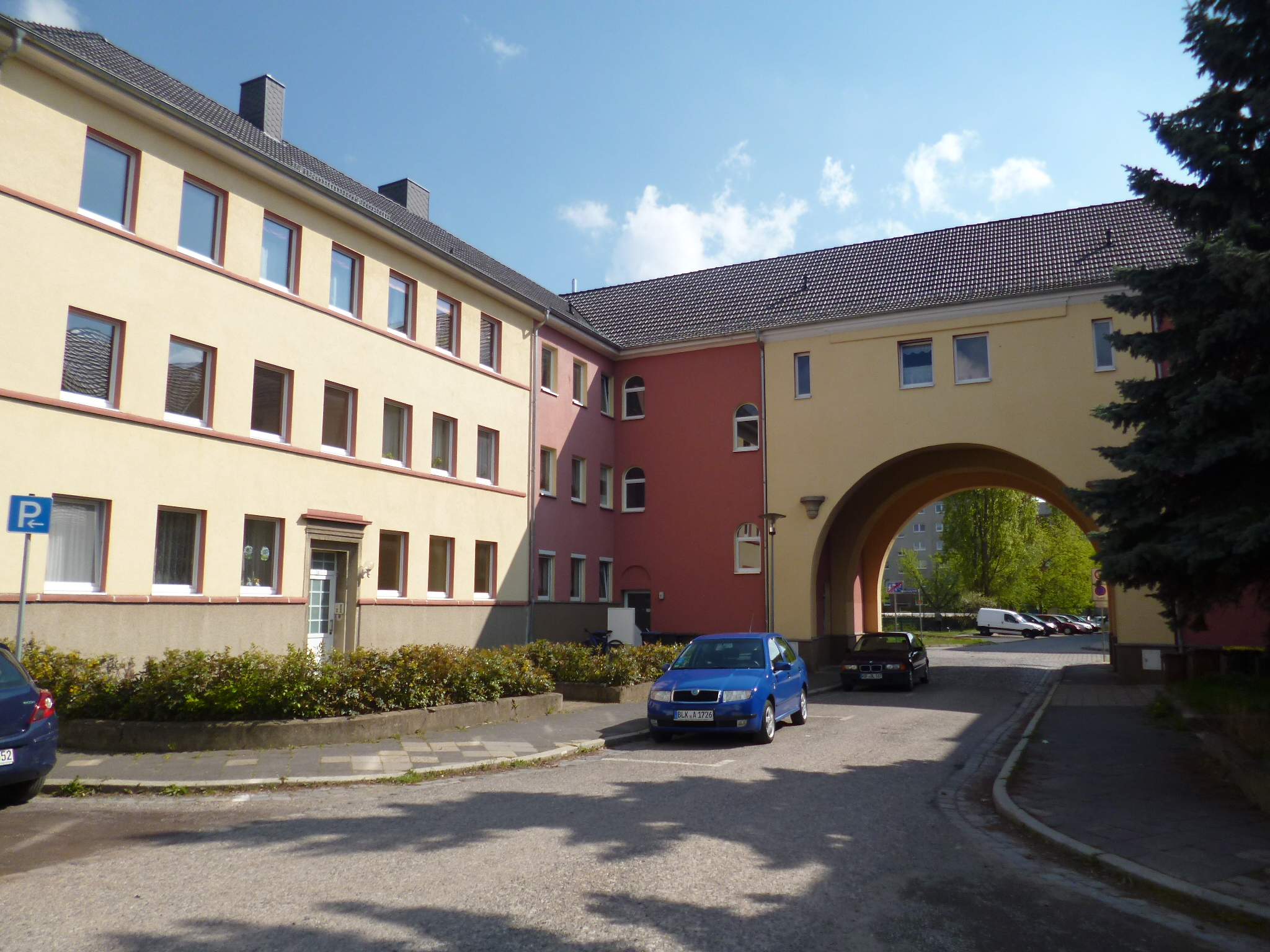 Geibelstrasse with the gateway to the Gustav-Freytag-Strasse (housing scheme), Weissenfels, Saxony-Anhalt